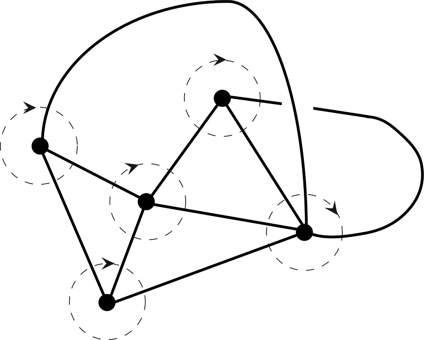 A ribbon graph is a graph with a cyclic ordering of edges that are adjacent to the same vertex.